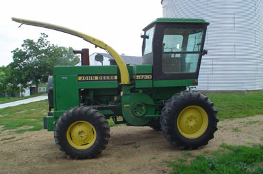 A self-propelled John Deere 5730 Forage Harvester that belongs to my dad. I took this photo at the family farm near Dubuque, Iowa, USA, in July of 2004.